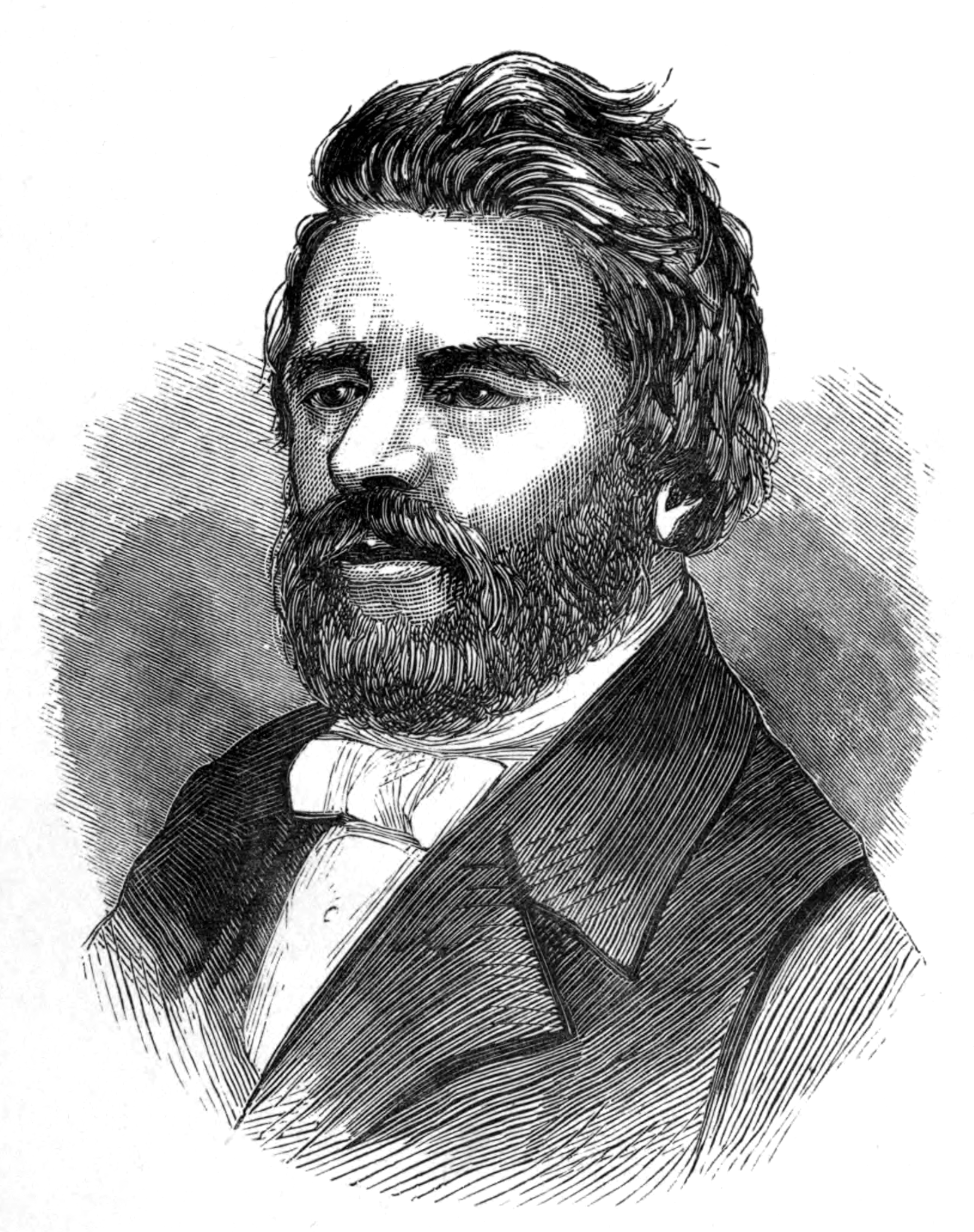 A portrait of Robert Chambers